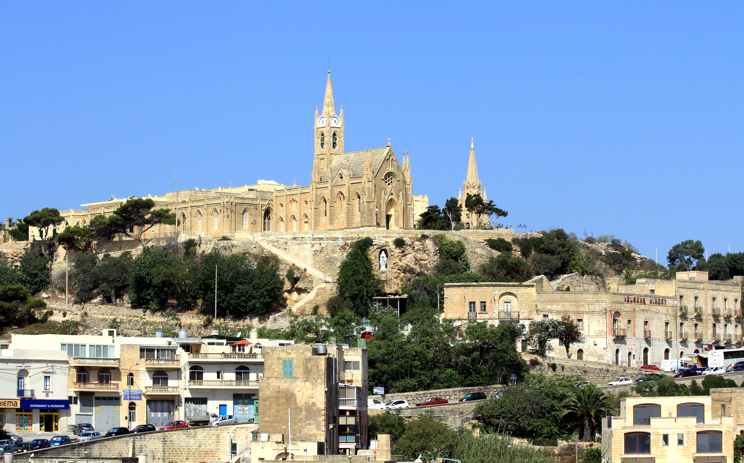 The Lourdes chapel in town Għajnsielem from the Mġarr Harbour, Gozo island, Malta